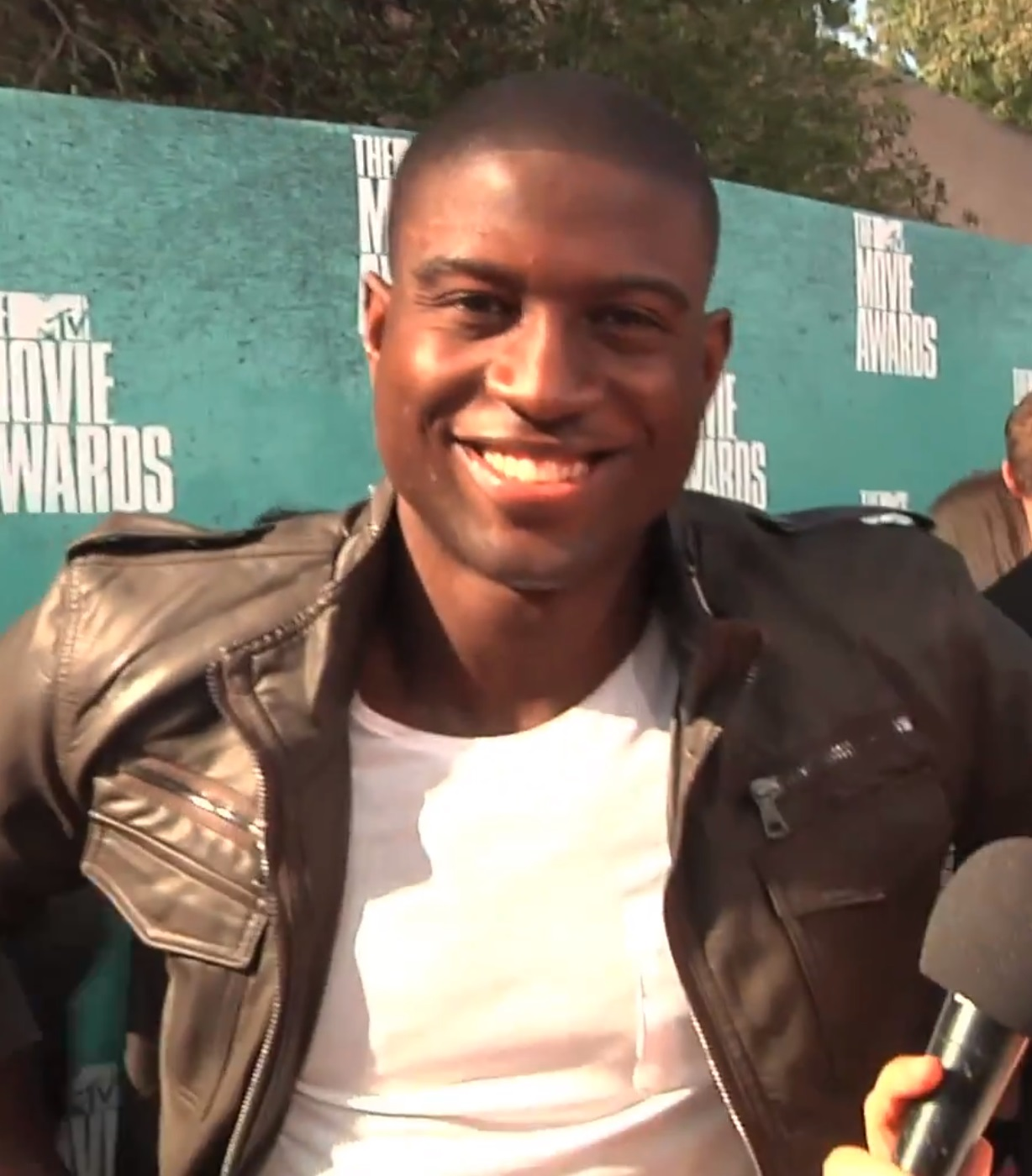 American actor Sinqua Walls interviewed at the MTV Movie Awards 2012 on "The Hollywood Social Lounge". Kelly V. Dolan & Mabel Aragon HOST the 2012 MTV Movie Awards Red Carpet for NBC News Radio KCAA 1050 AM "LIVE with Aaron & Kelly"